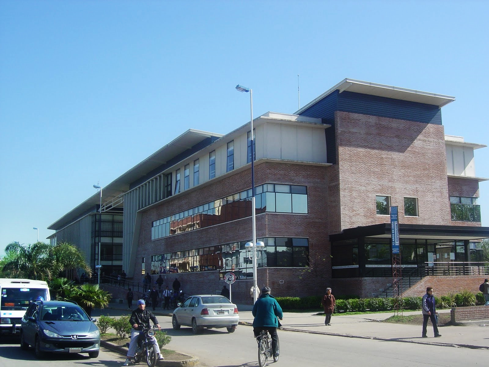 City Hall in Ezeiza, Argentina. Designed by MSGSSS, and completed in 2006.